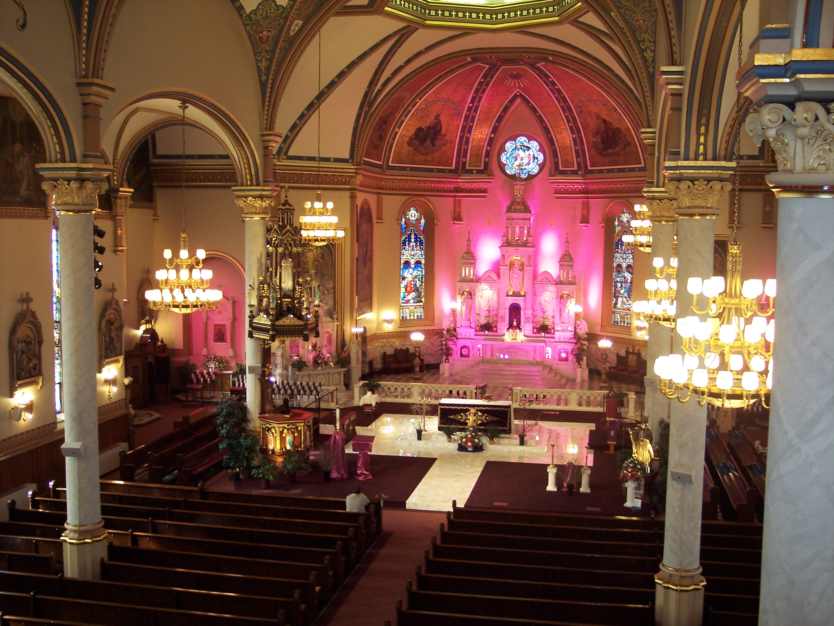 View of inside St. Stanislaus Bishop & Martyr Church(from 2nd floor), 123 Townsend St, Buffalo NY, 14212